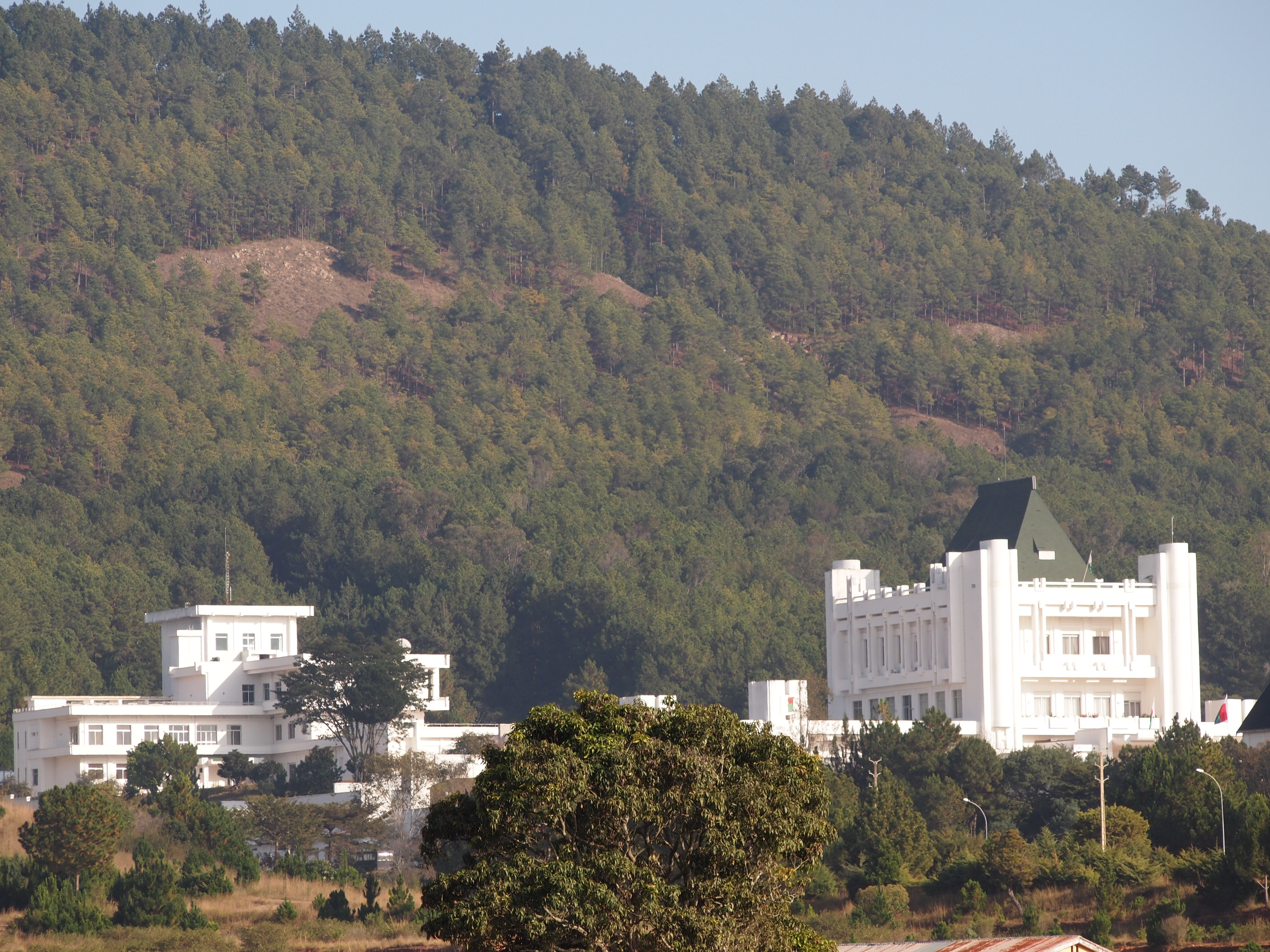 presidential palace Madagascar